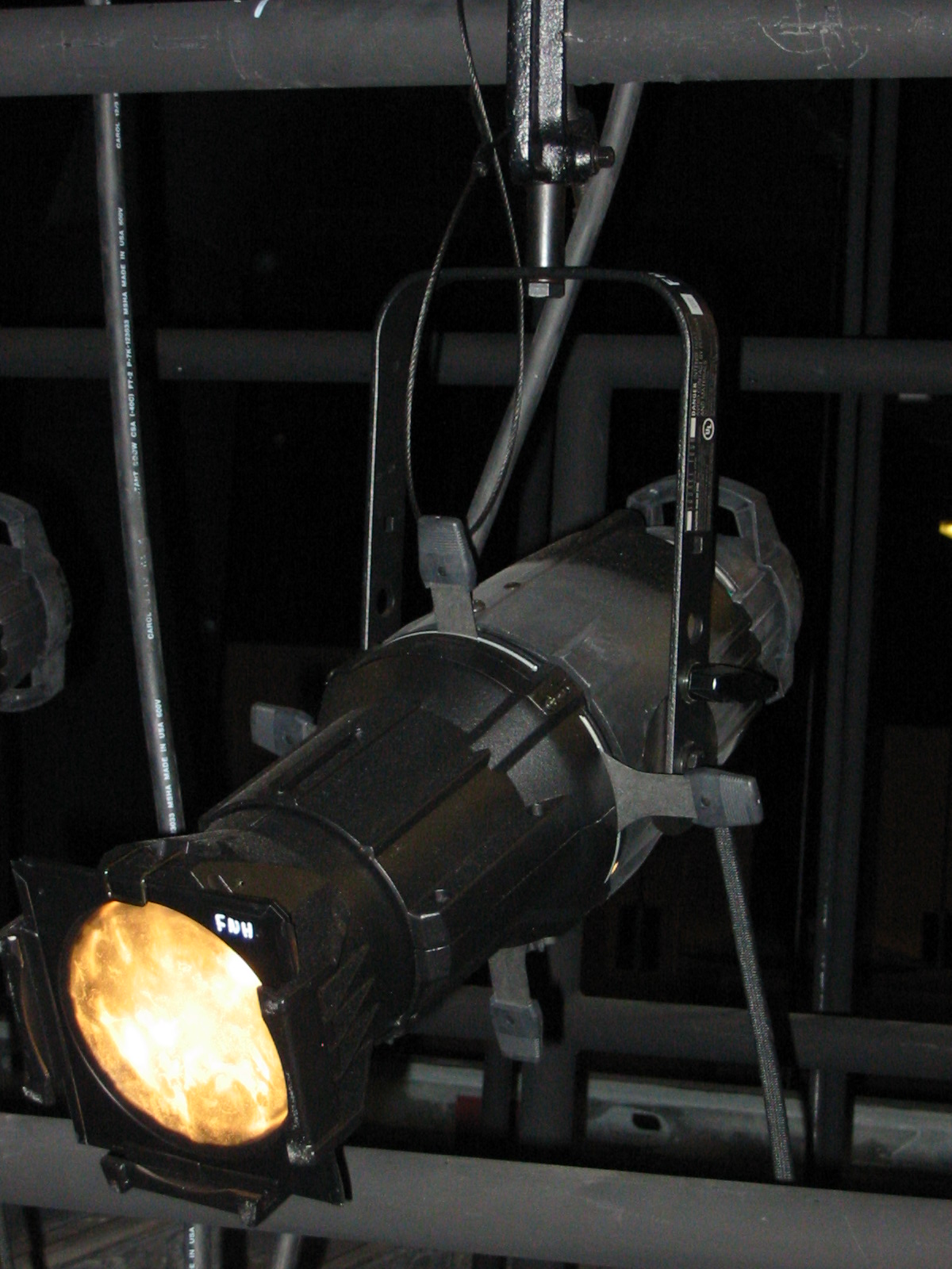 This photo is an image of a Source Four ERS lighting instrument made by Electronic Theatre Controls in use. The fixture's beam angle is between 19 and 50 degrees depending on the lens. For more information, see ellipsoidal reflector spotlight